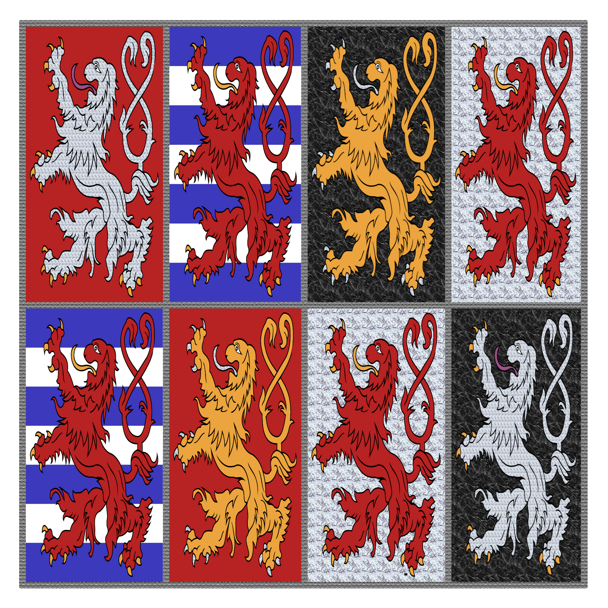 This picture shows coats of arms of Wenceslas I of Luxemburg (1337 † 1383), count of Luxemburg.